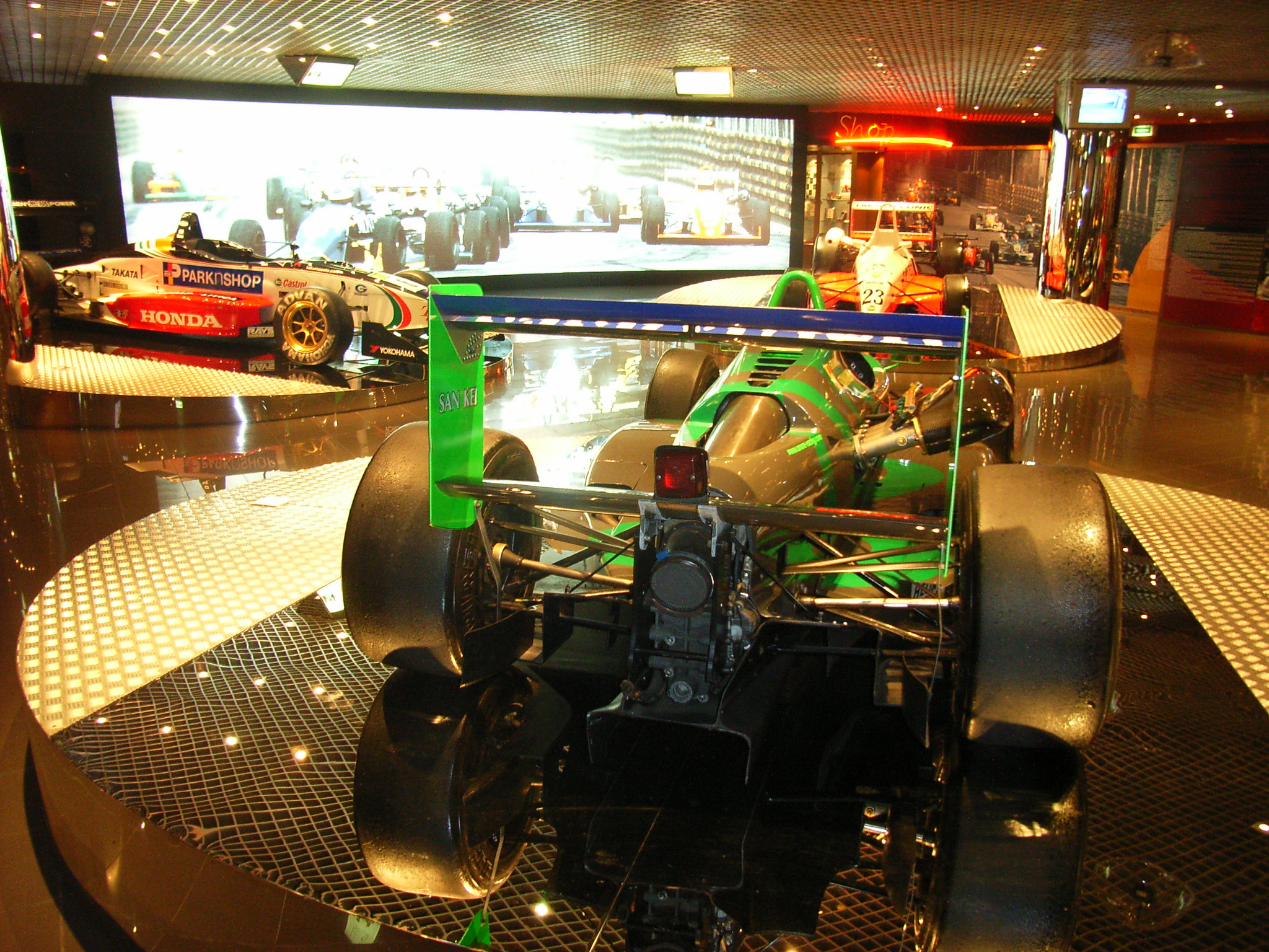 The Grad Prix Museum in Macau 澳門大賽車博物館 在 新口岸區 高美士街